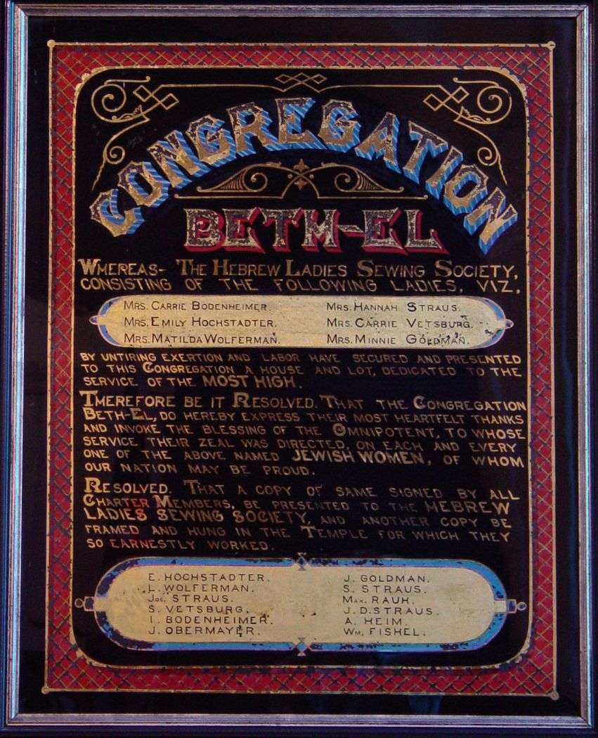 Original Plaque of Temple Beth El Founders